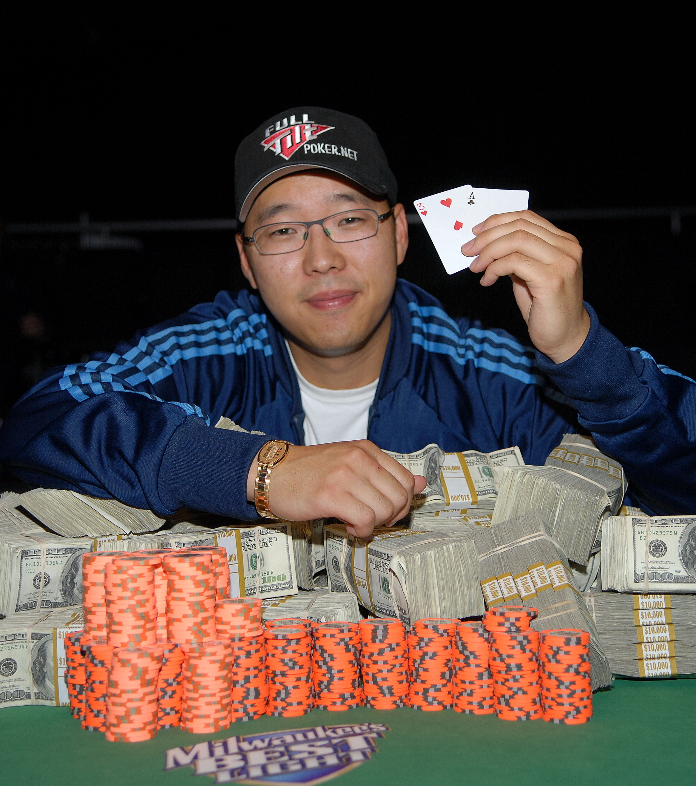 Michael Chu, after winning the $1,000 No Limit Hold'em w/Rebuys event at the 2007 World Series of Poker (cropped from original)